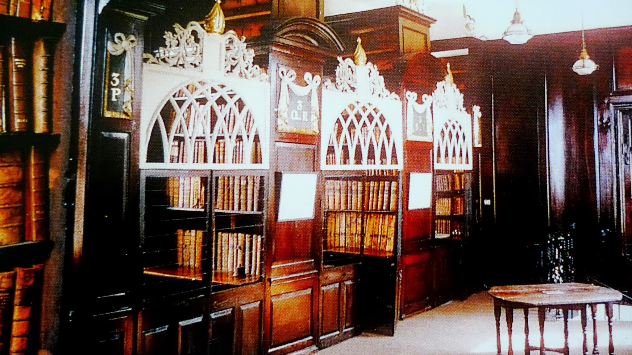 Marsh´s library